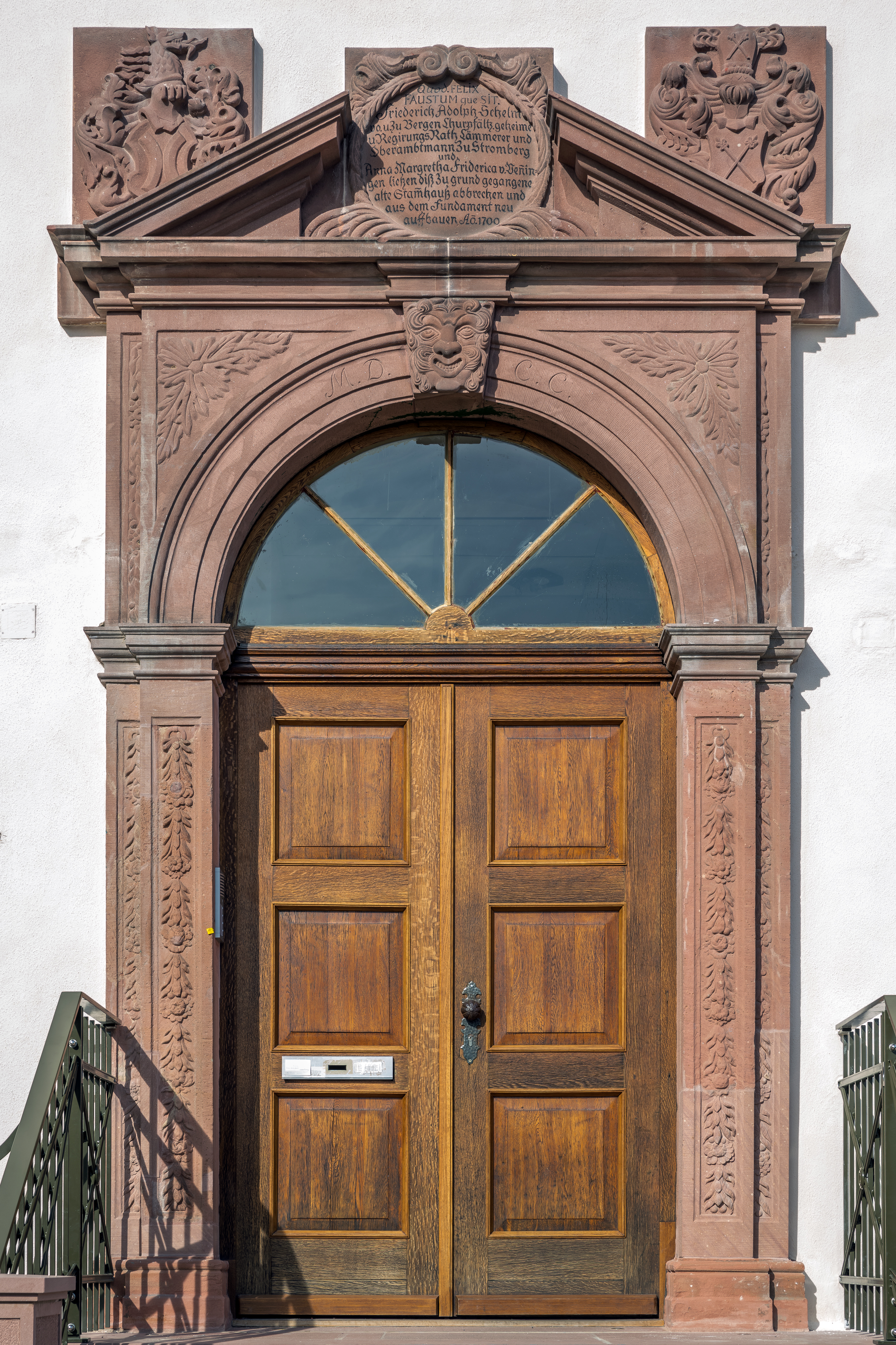 Frankfurt on the Main: Schelmenburg, portal as seen from the south